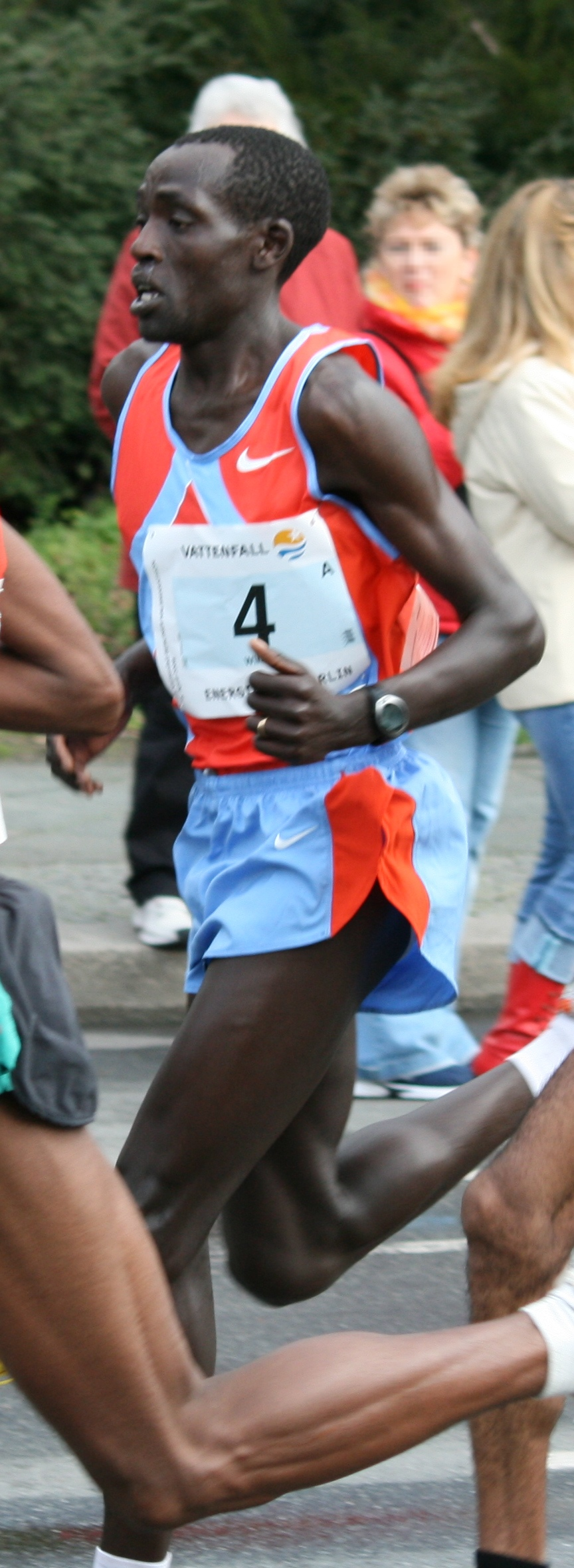 William Todoo Rotich at the Berliner Halbmarathon 2008